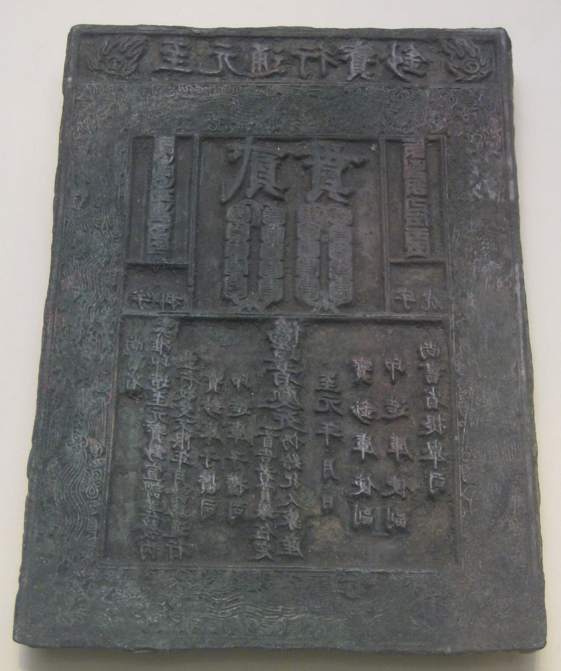 Bronze printing plate for the Zhiyuan banknote. Yuan (1206-1368). Phags-pa inscription (two vertical lines, reading left-to-right on either side of "2 Guan"): ꡆꡞ ꡝꡧꡦꡋ ꡎꡓ ꡅꡓ / ꡆꡦꡟ ꡙꡟ ꡉꡟꡃ ꡯꡨꡞꡃ (ji 'wėn baw chaw / jėu lu thung hying) = 至元寶鈔 諸路通行 "Zhiyuan precious money, for circulation in all provinces".